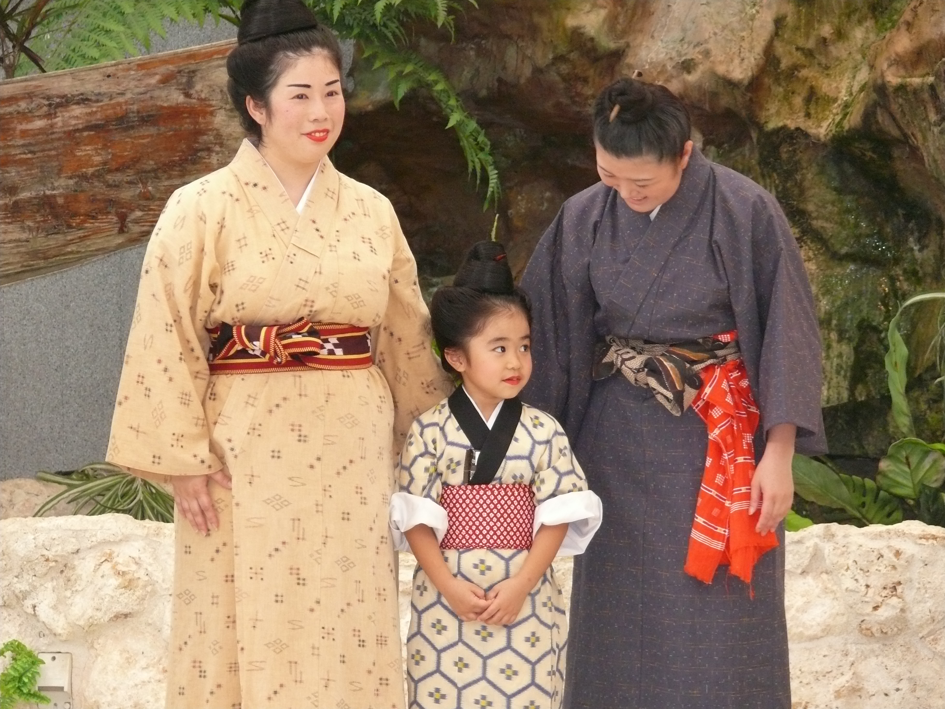 okinawa costumes